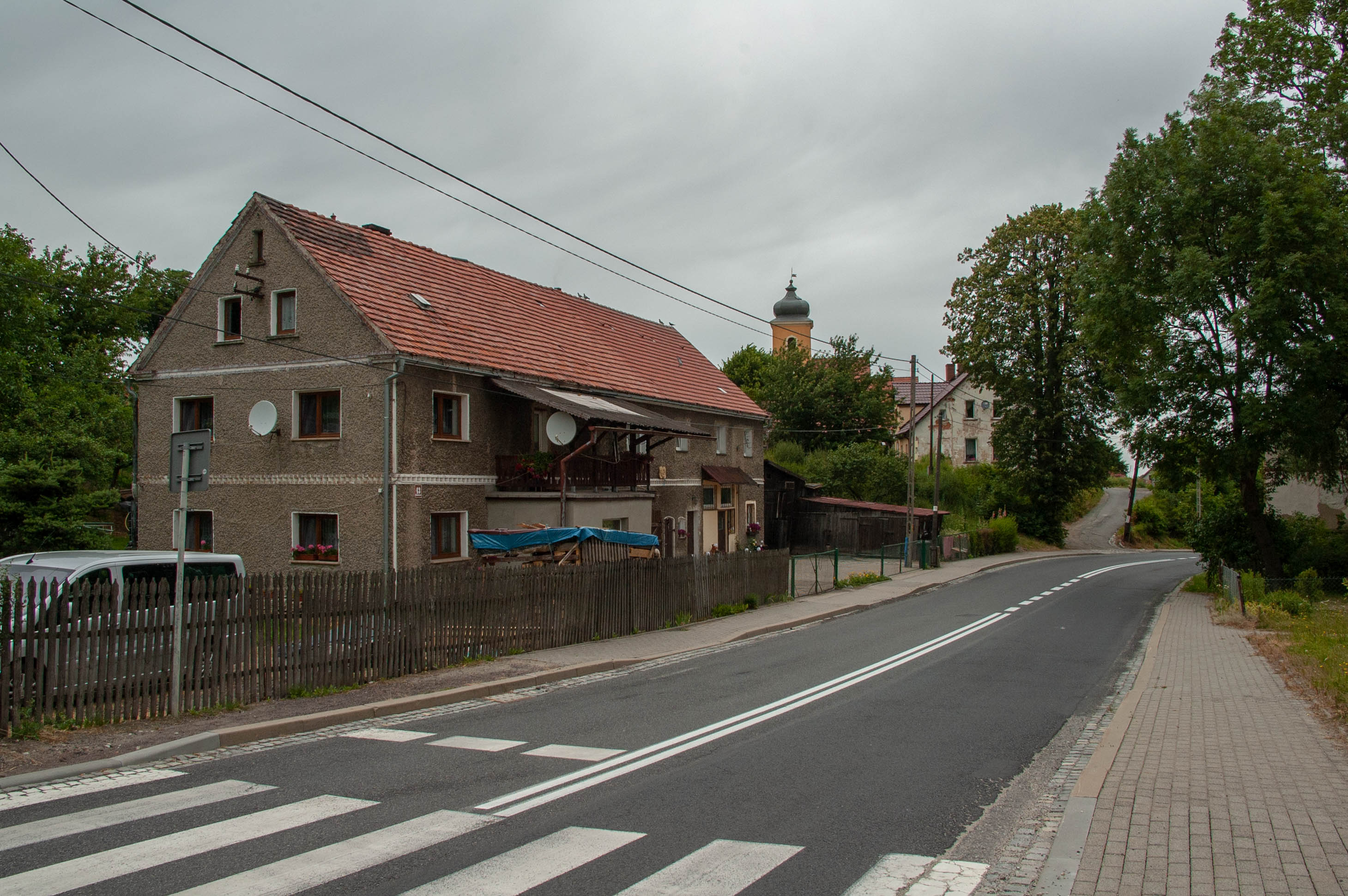 This photograph was created as a part of Wikiexpedition Lower Silesia, a project supported by Wikimedia Poland grant.